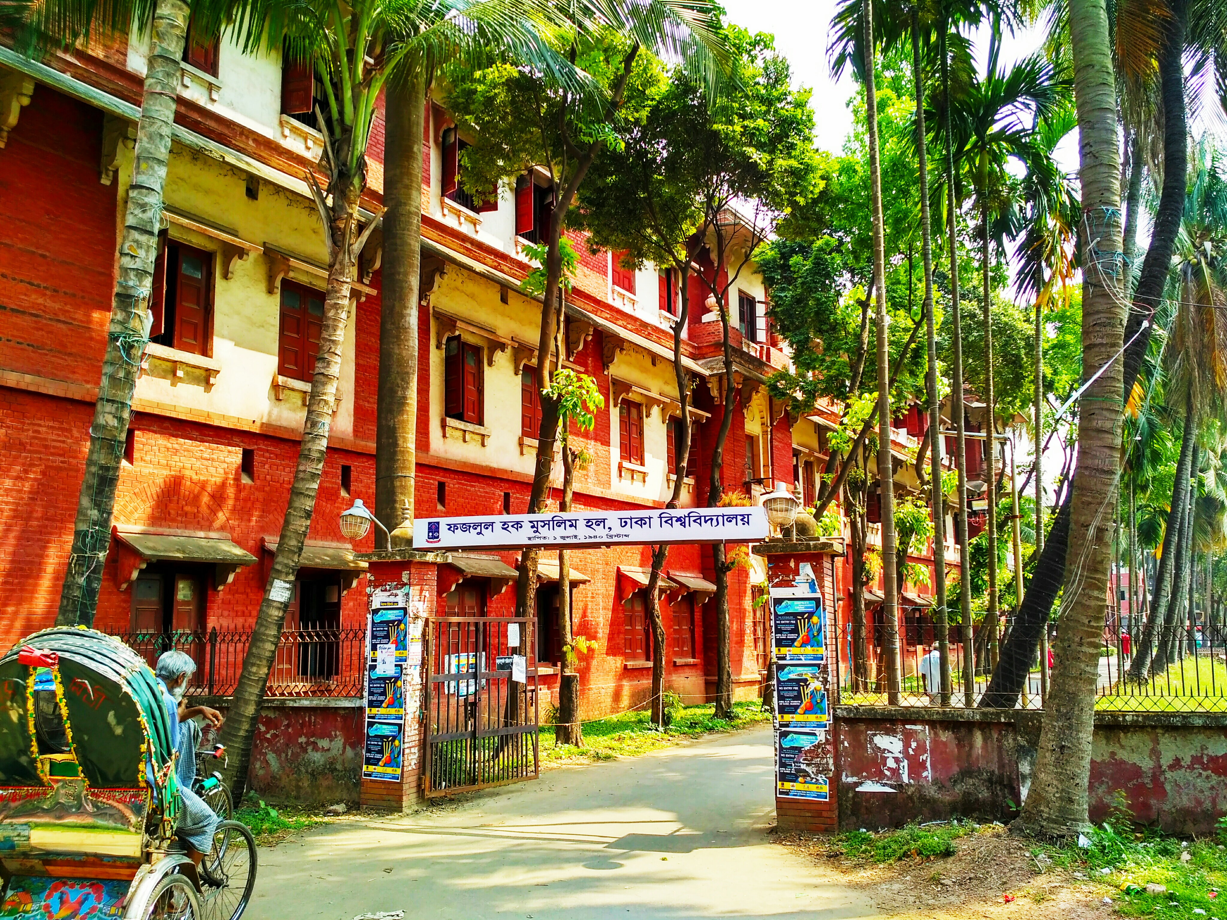 View of the entrance and the building of Fazlul Haque Muslim Hall, Dhaka University at the south-east side of the Curzon Hall. (29.03.2019)